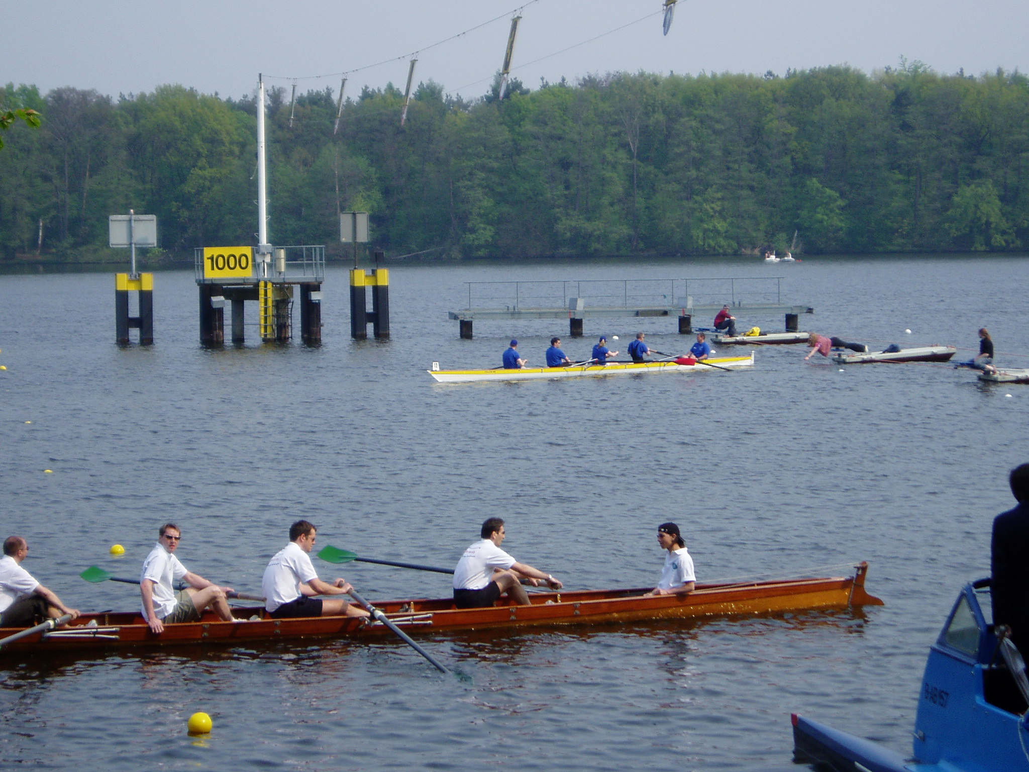 1000 meter mark of the Regattastrecke Berlin-Grünau